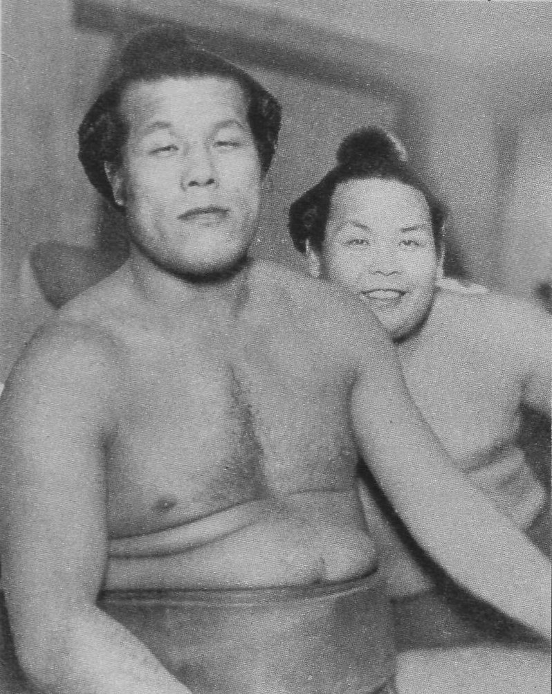 Takanobori Wataru (Left) and Kasagiyama Katsuichi.